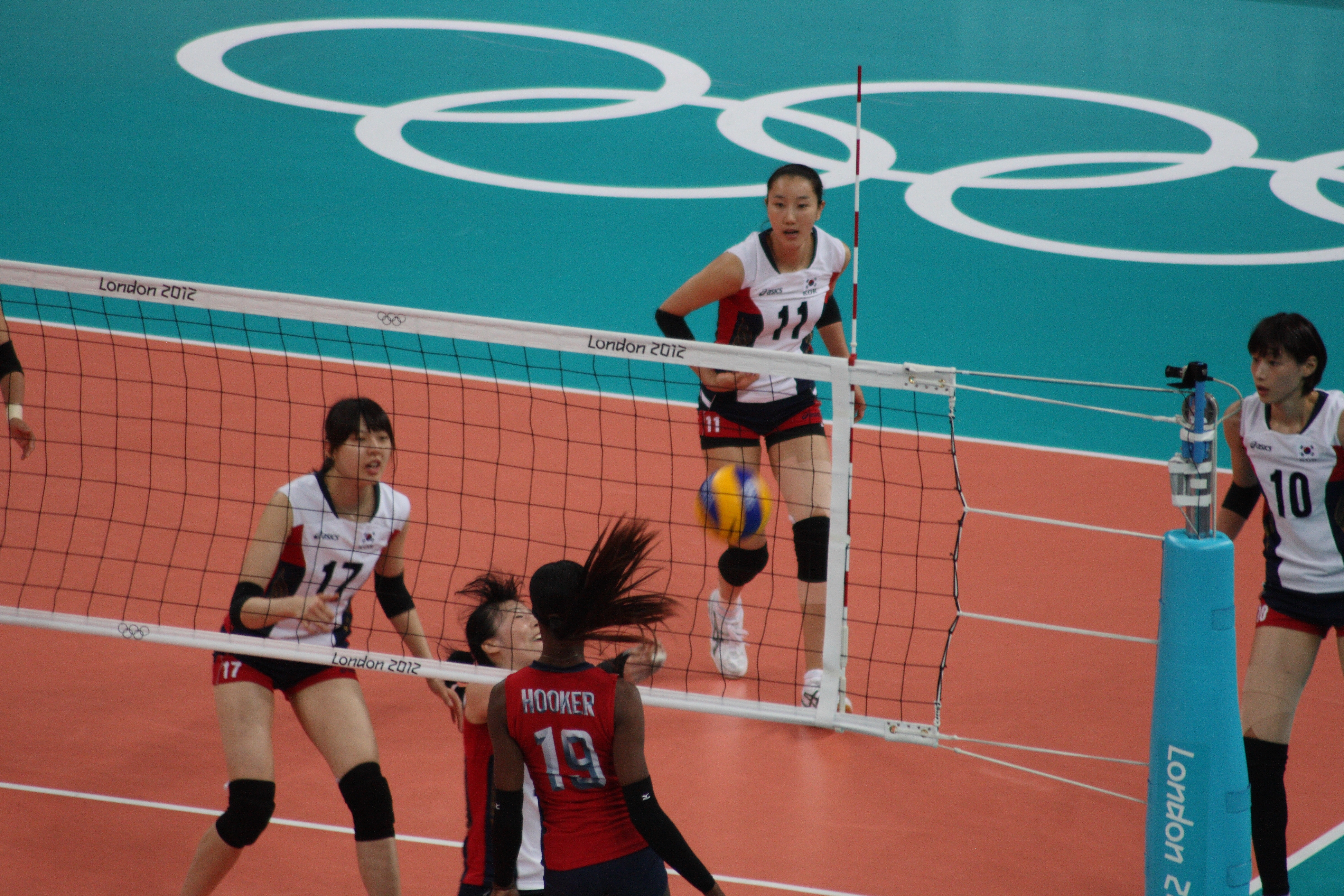 Women's Volleyball semifinals - 15